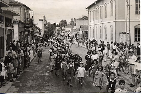 Petah Tikva streets , Cities in Israel